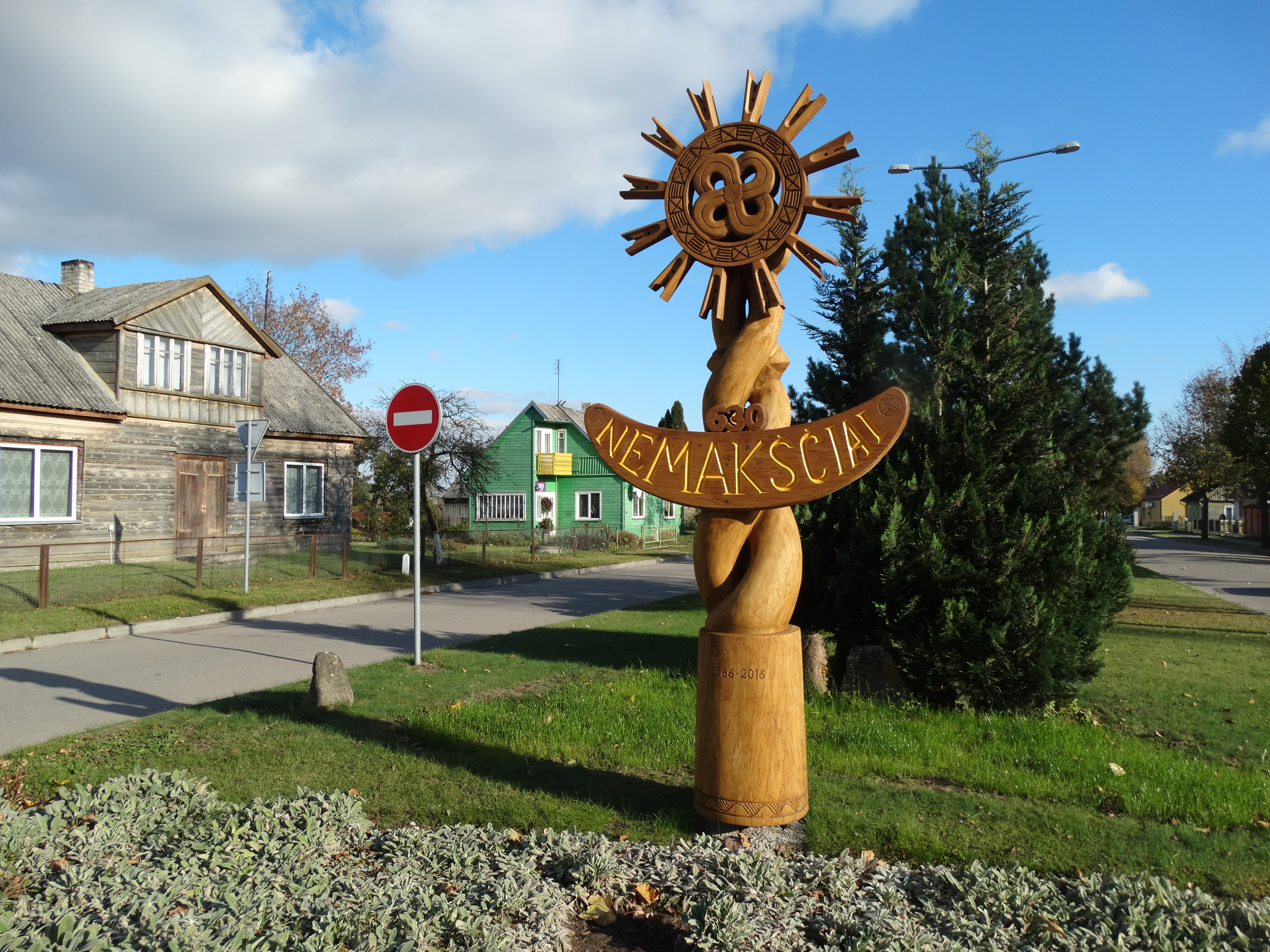 Nemakščiai, Raseiniai District, Lithuania